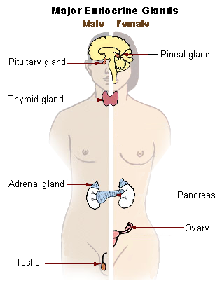 Location of major endocrine glands